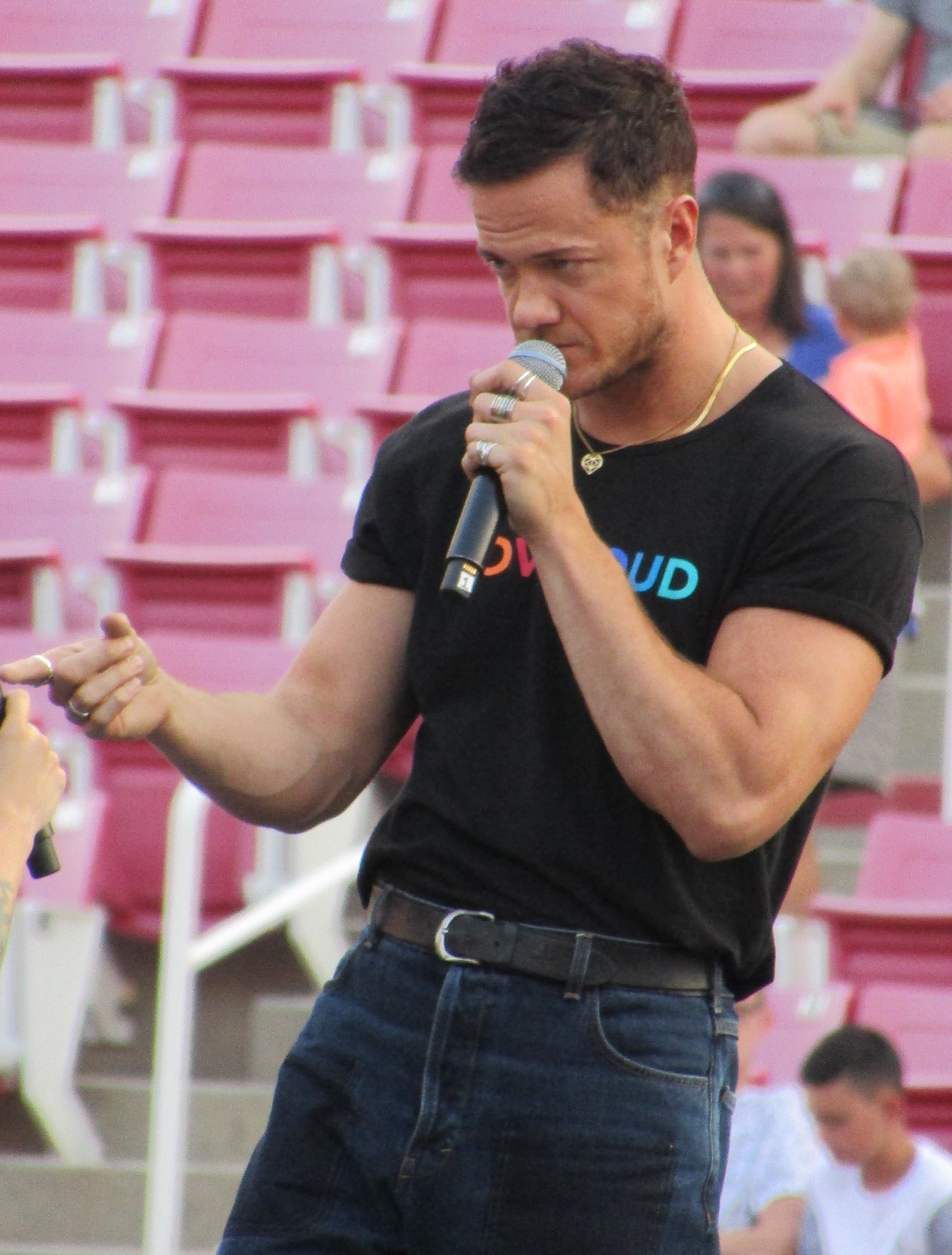 Dan Reynolds speaking at LoveLoud 2018.